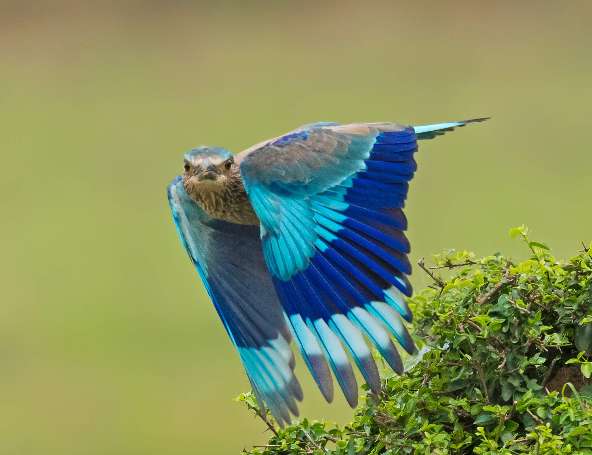 A Flight of an Indian Roller